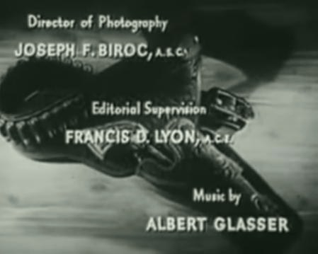 The Bushwhackers (1952) - credits (cropped screenshot)